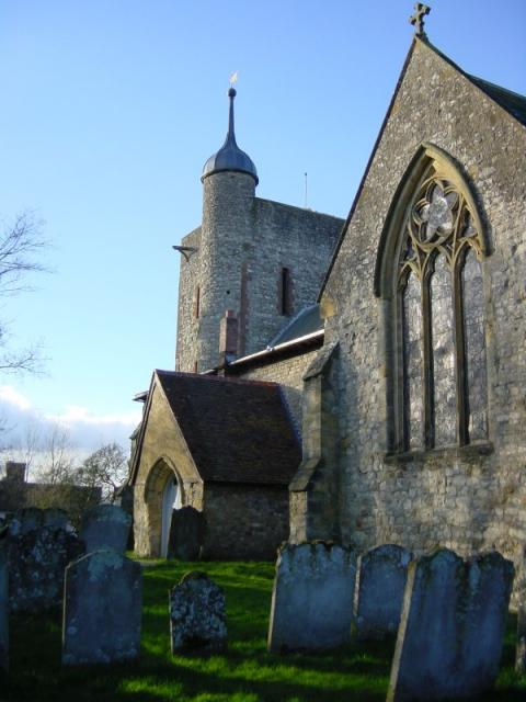 South transept, porch and west tower of SS Peter and Paul parish church, Yalding, Kent, seen from the southeast